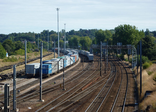 Railway line curving towards Ipswich station Seen from the London Road bridge.